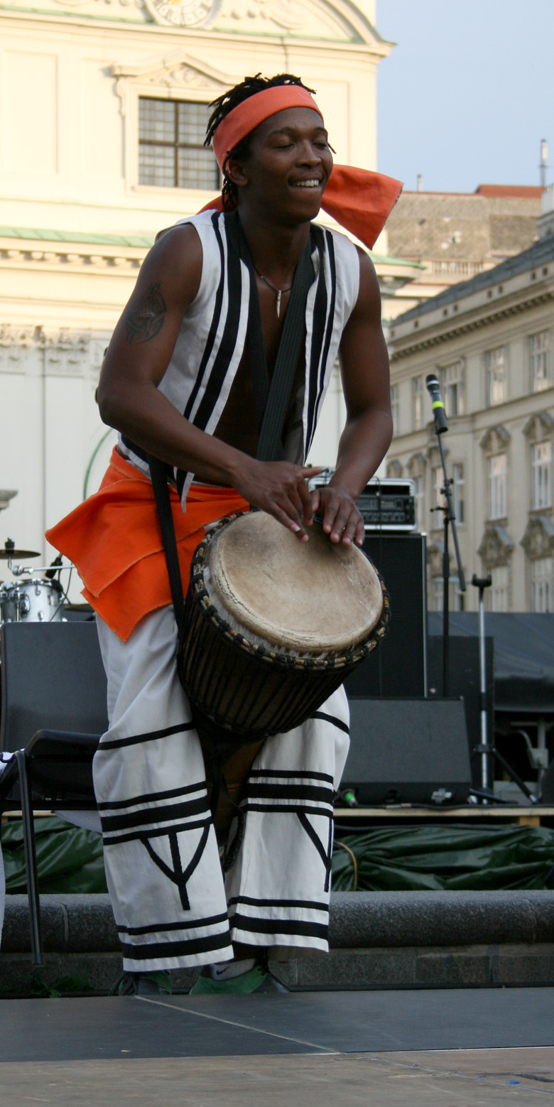 South African Dancers and Musicians; performance at a presentation of the nine host-cities of the 2010 FIFA World Cup in South Africa during the UEFA Euro 2008 in Vienna (Austria).